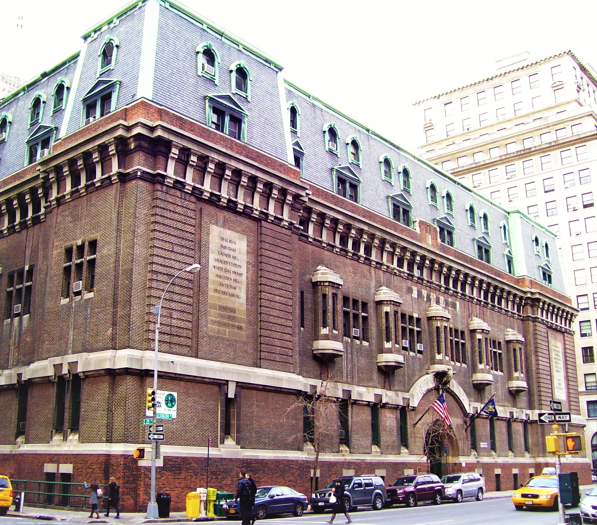 The 68th Regiment Armory at 68 Lexington Avenue between 25th and 26th Streets in Manhattan, New York City was built in 1904-1906, designed by Hunt & Hunt. It was the site of the 1913 Armory Show which introduced modern art to the U.S. The building has been a NYC landmark since 1983. (Source: Guide to NYC Landmarks (4th ed.))